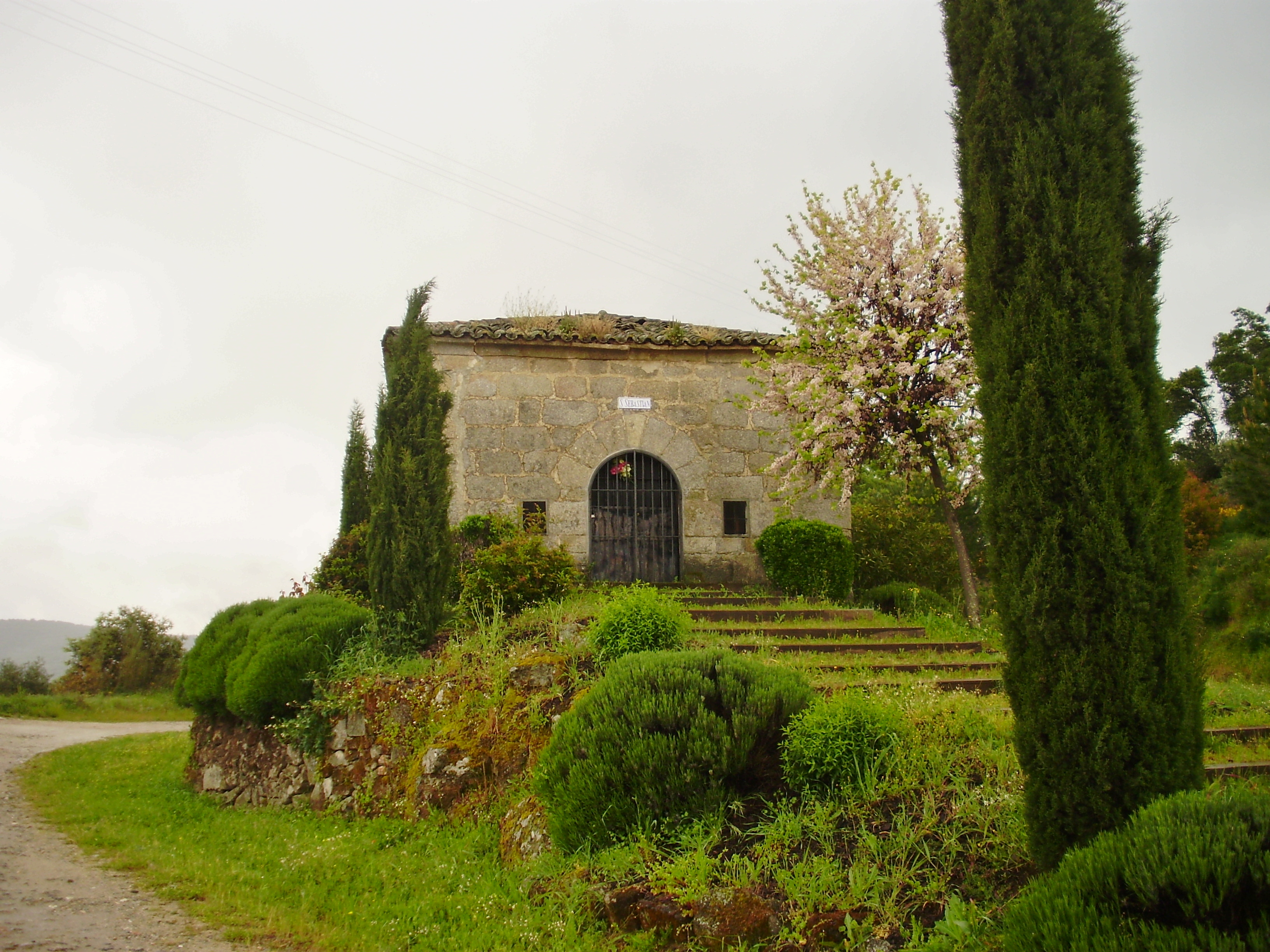 San Sebastián Hermitage in Buenaventura, Toledo, Castile-la Mancha